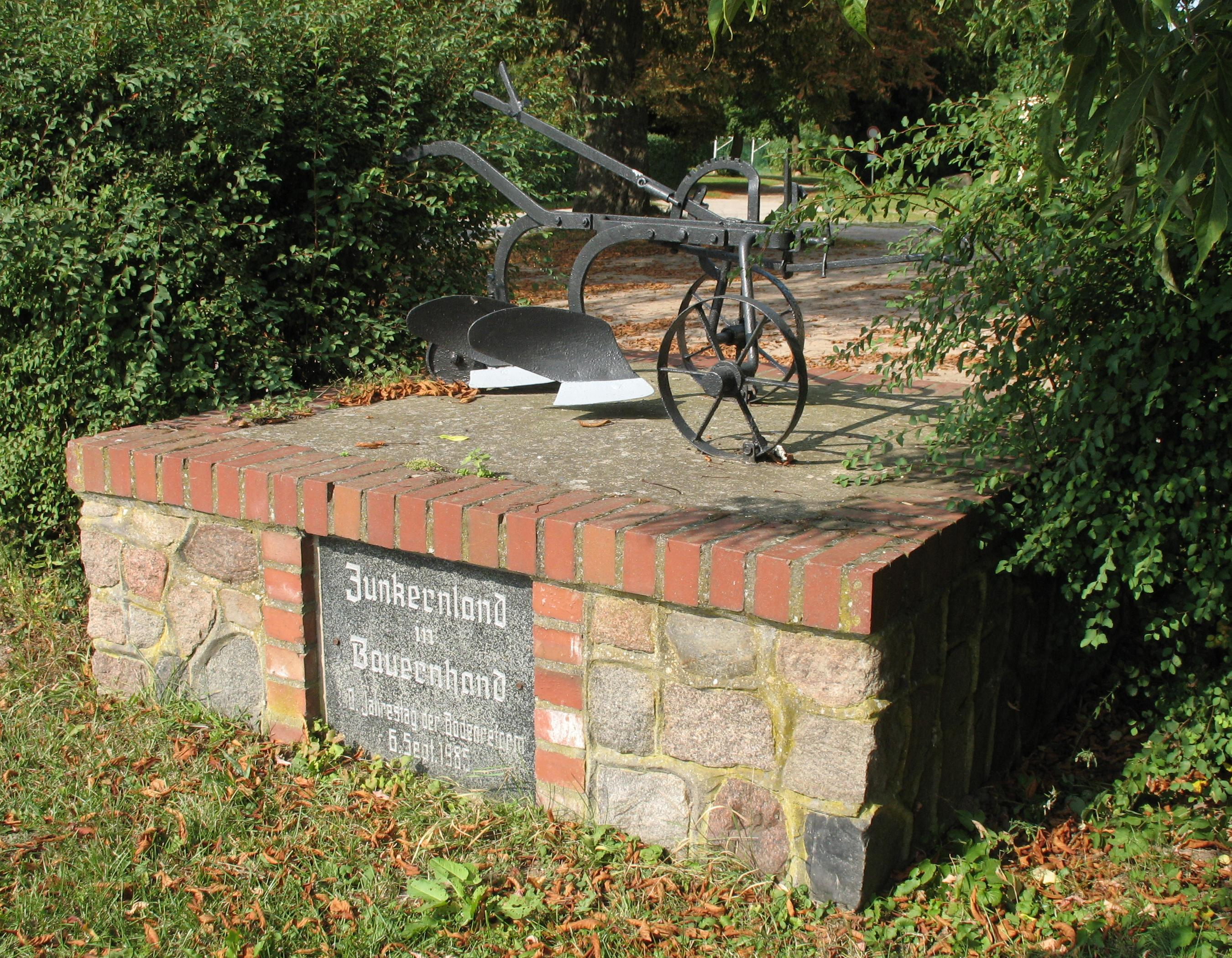 Memorial in Uckerland-Wolfshagen in Brandenburg, Germany